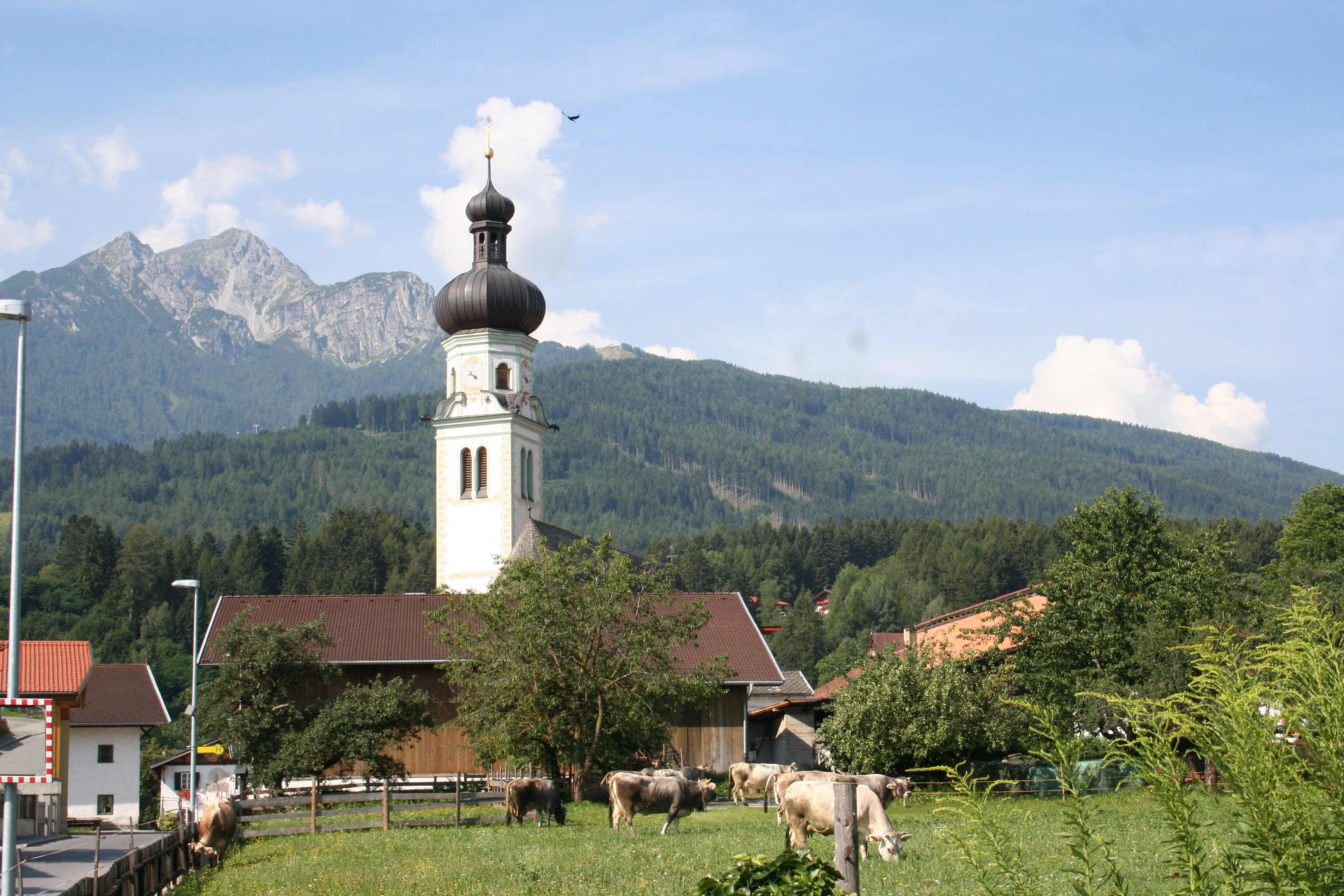 Natters, bell tower of St Michael's Parish Church from north-east (Innsbrucker Straße).